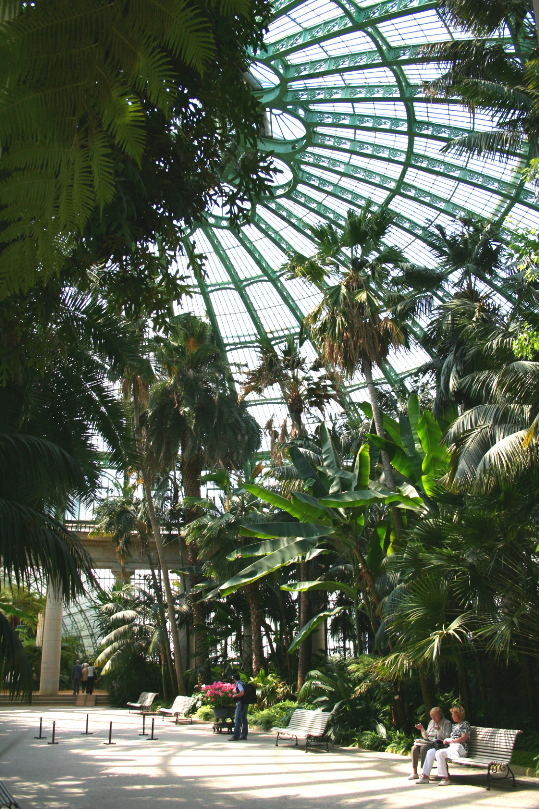 Laeken (Belgium), the Royal Greenhouses of Balat (1874-1890).